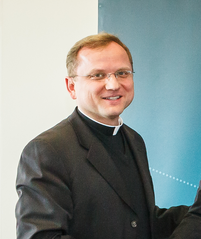 Reverend Monsignor Janusz Stanislaw URBANCZYK, Permanent Representative of Holy See presents his credentials to the Executive Secretary of the Preparatory Commission for the Comprehensive Nuclear-Test-Ban Treaty Organization, on Tuesday, 18 March 2015.